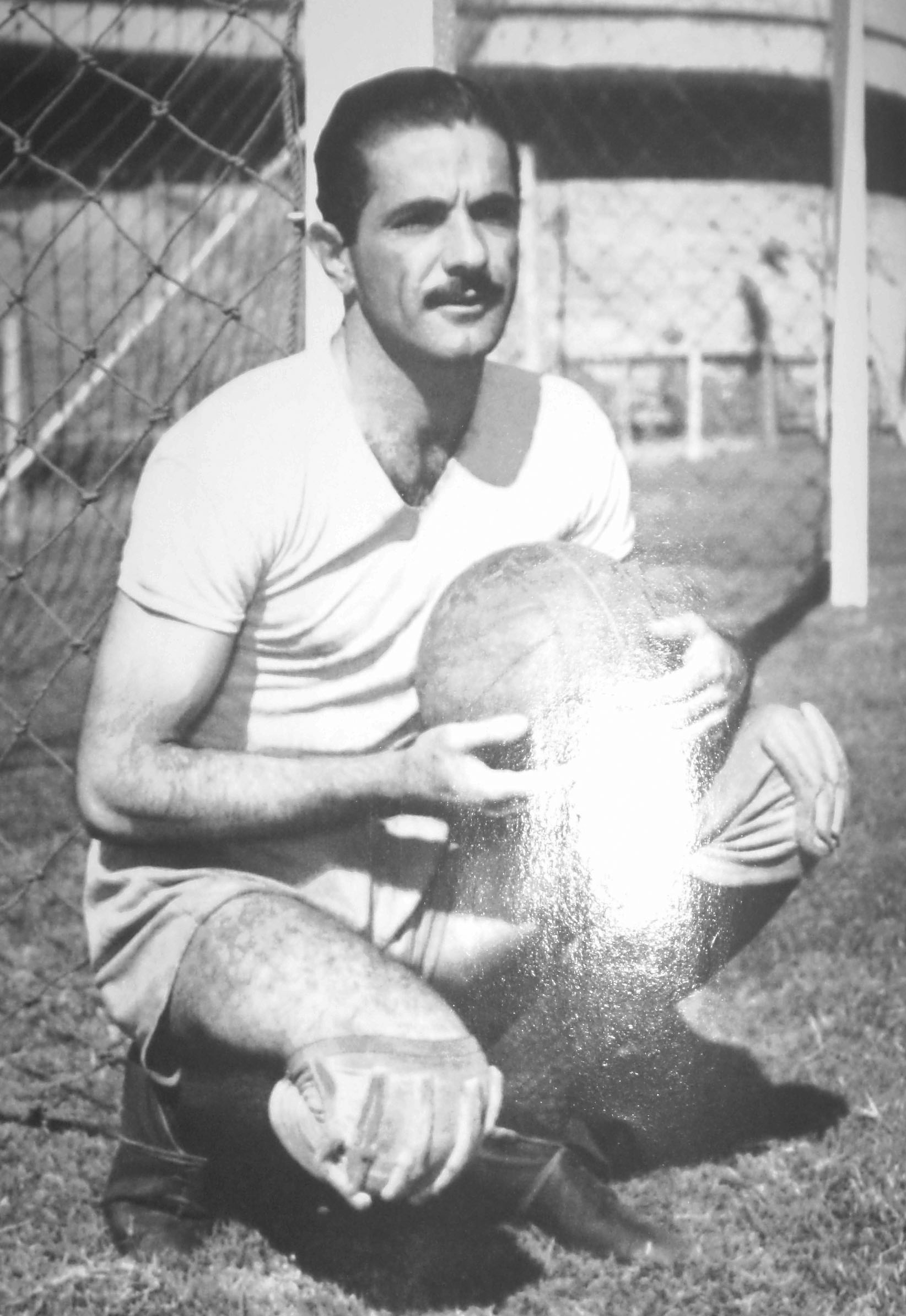 Claudio Vacca during his run on Boca Juniors in 1944.